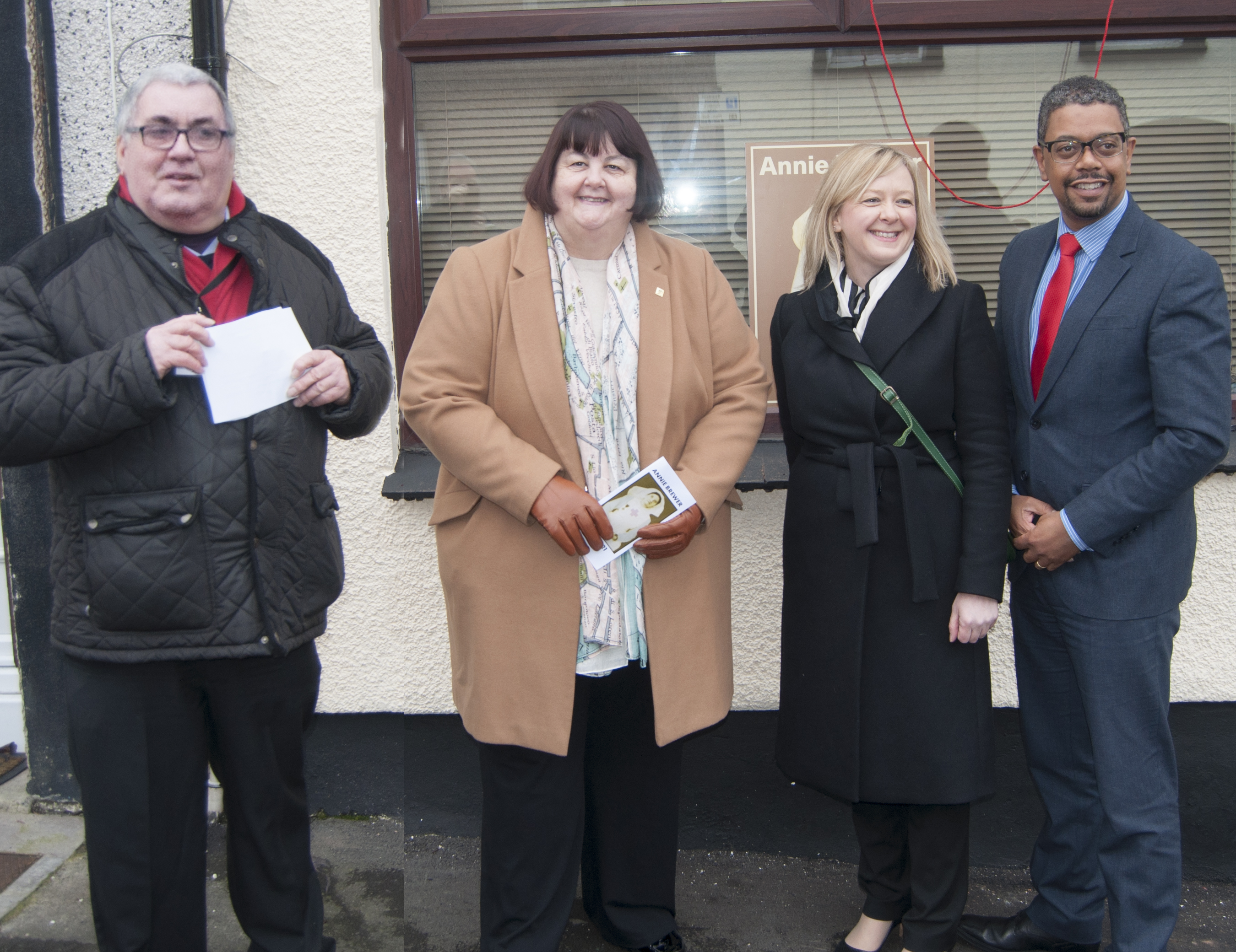 A blue plaque was unveiled at West Street. Peter Strong (GWFA) Debbie Wilcox (Leader NCC) Jayne Bryant AM and Welsh Health Minister Vaughan Gethin AM